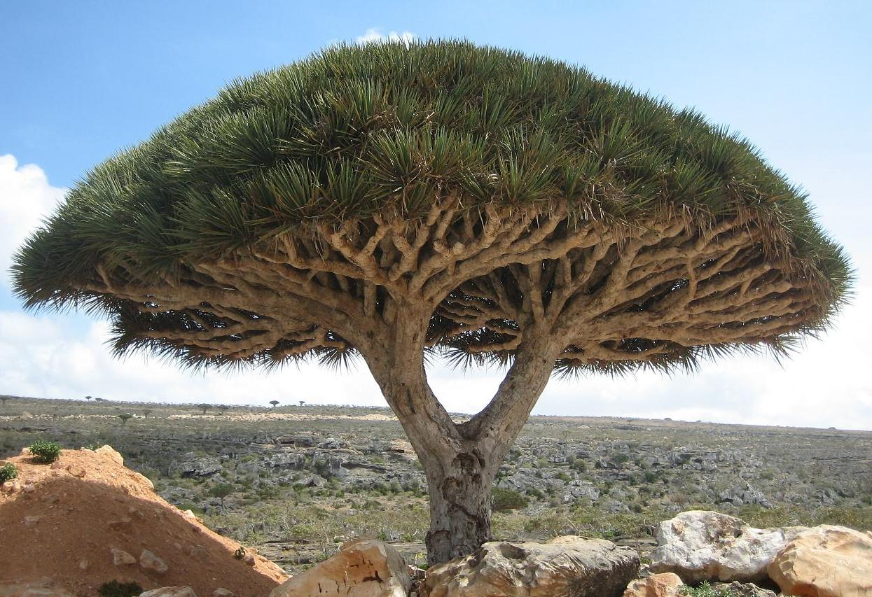 Dracaena cinnabari (Dragon's Blood Tree) — endemic to Socotra island, Yemen.